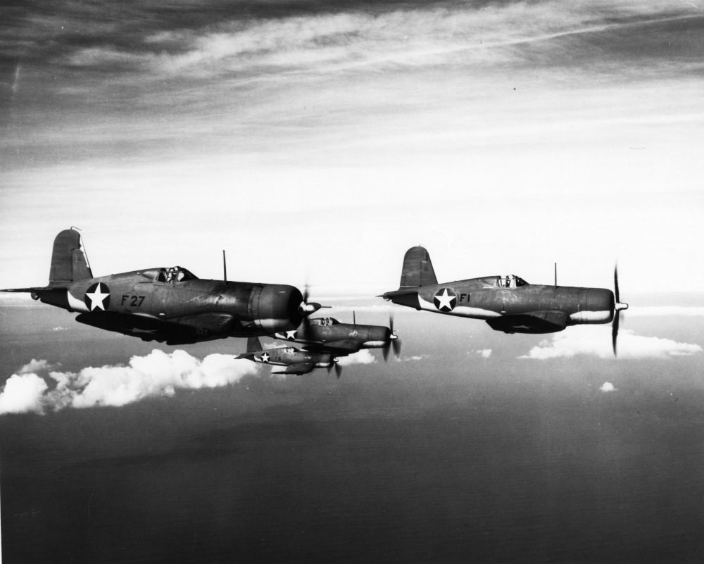 PictionID:41545375 - Title:Ray Wagner Collection Image - Catalog:16_000397 Vought F4U-1 - Filename:16_000397 Vought F4U-1.tif - - - - Image from the Ray Wagner Collection. Ray Wagner was Archivist at the San Diego Air and Space Museum for several years and is an author of several books on aviation --- ---Please Tag these images so that the information can be permanently stored with the digital file.---Repository: San Diego Air and Space Museum